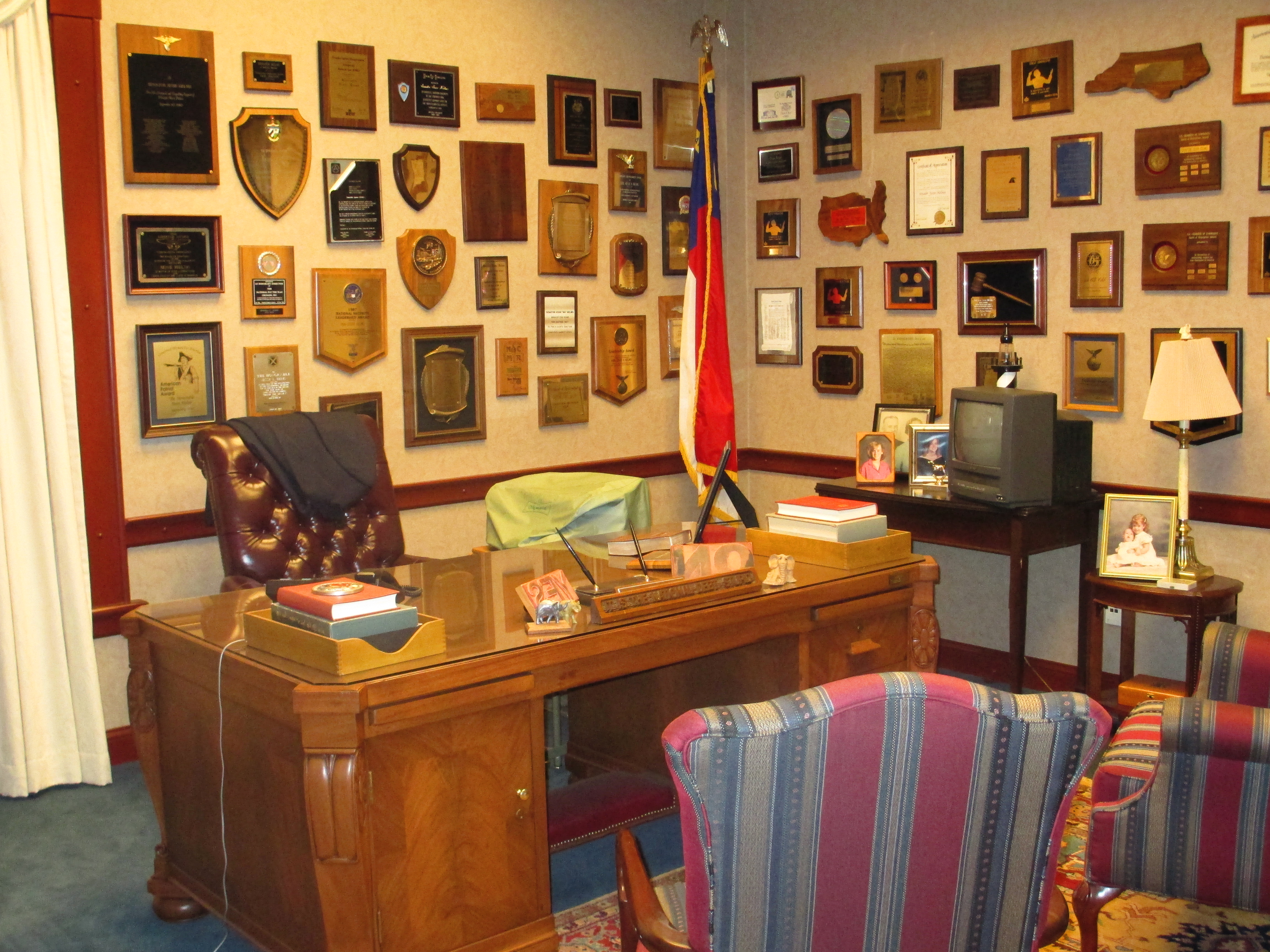 I took photo at Jesse Helms Center in Wingate, NC, with Canon camera.